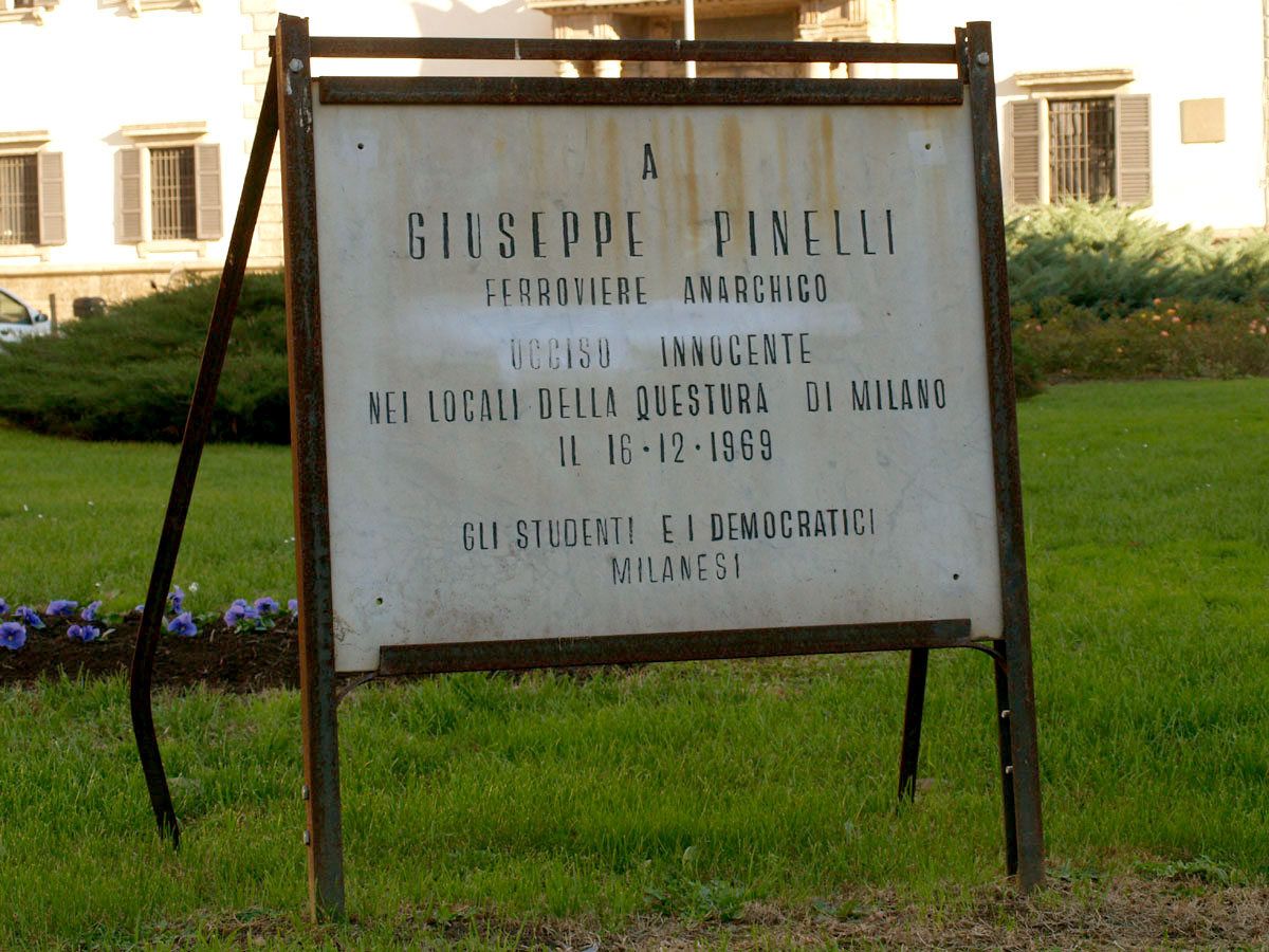 Piazza Fontana, Milan: plaque in memory of the anarchist Giuseppe Pinelli, who died under police custody, charged with being responsible of a terrorist attack in Piazza Fontana occurred on December 12, 1969. He was eventually recognized innocent and cleared of all accusations. This plaque has been put in place by fellow anarchists. (Picture taken on December 12, 2007).